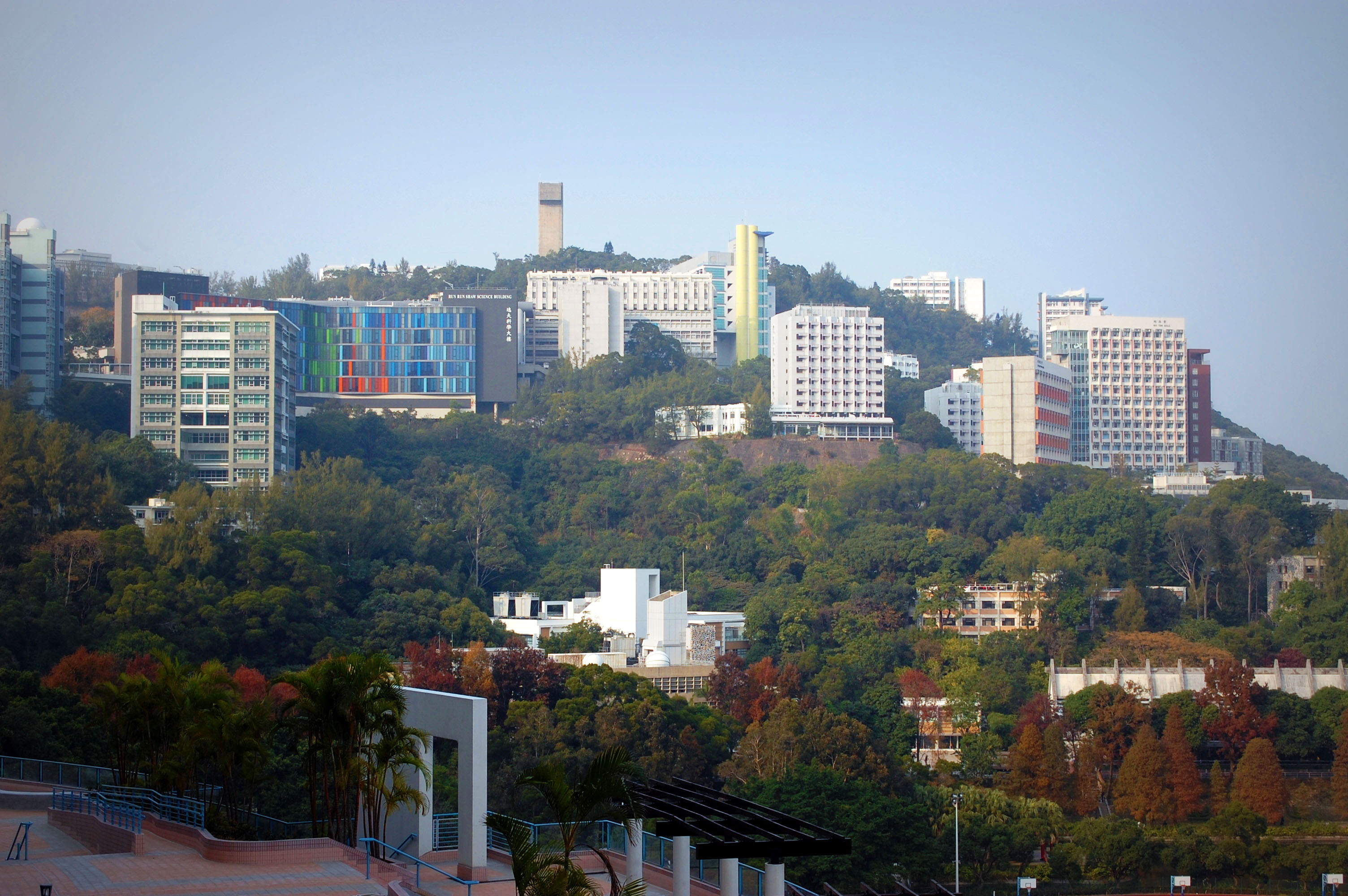 A view of part of the Chinese University campus.